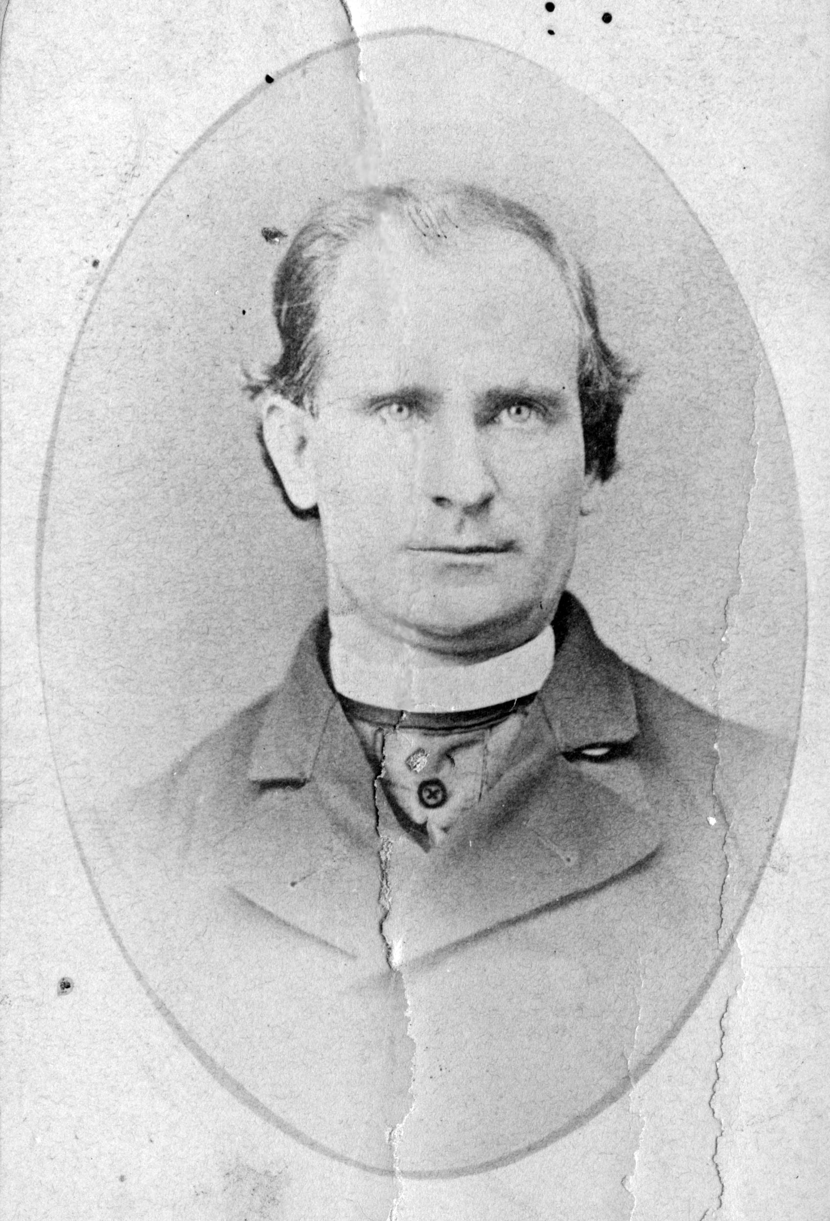 Fr. Thomas A. Butler later in life